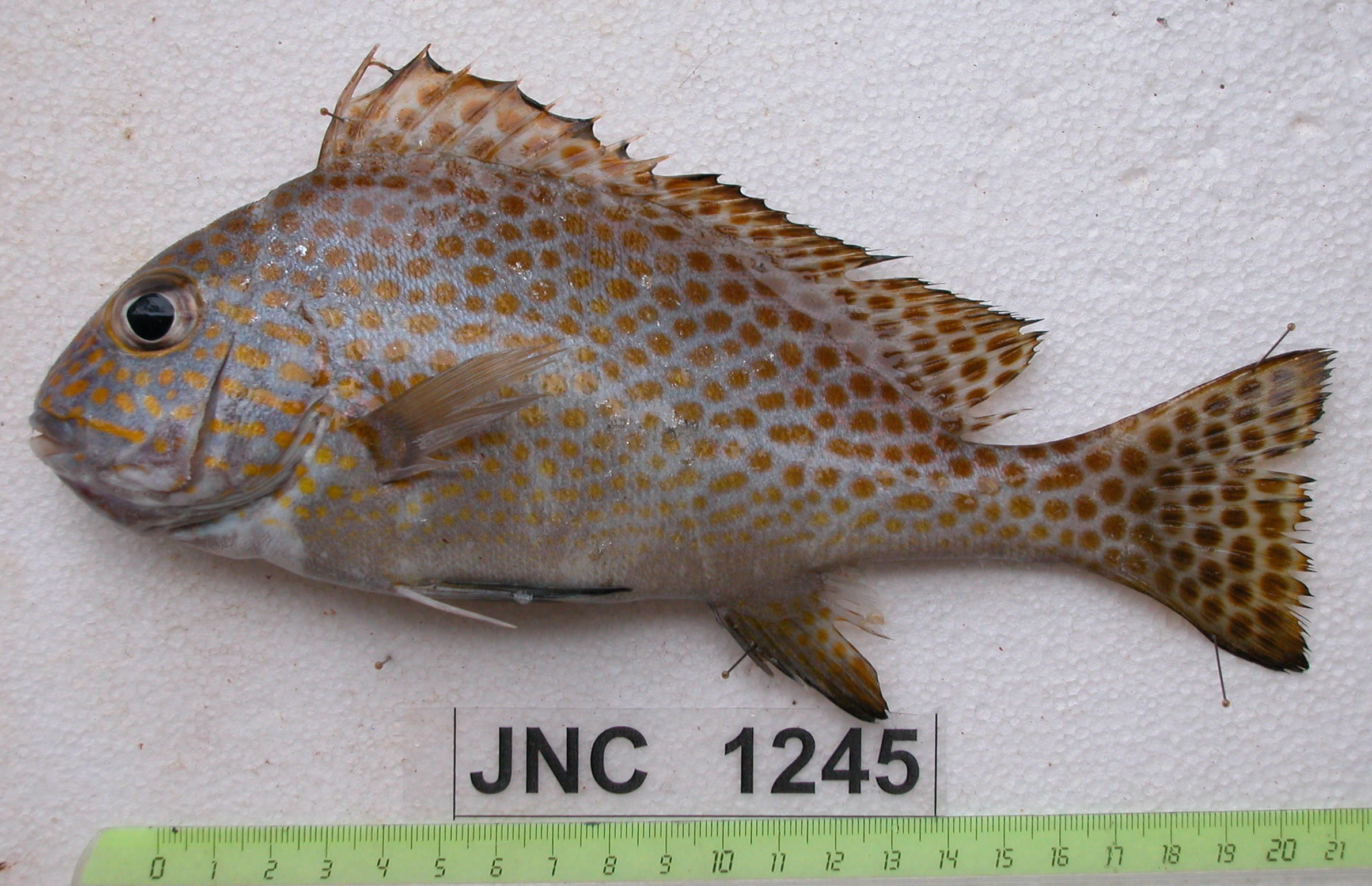 Diagramma pictum. Number MNHN JNC1245. Locality: off Nouméa, New Caledonia. Date 14-09-2004. Fork Length 215 mm, Weight 158 g.